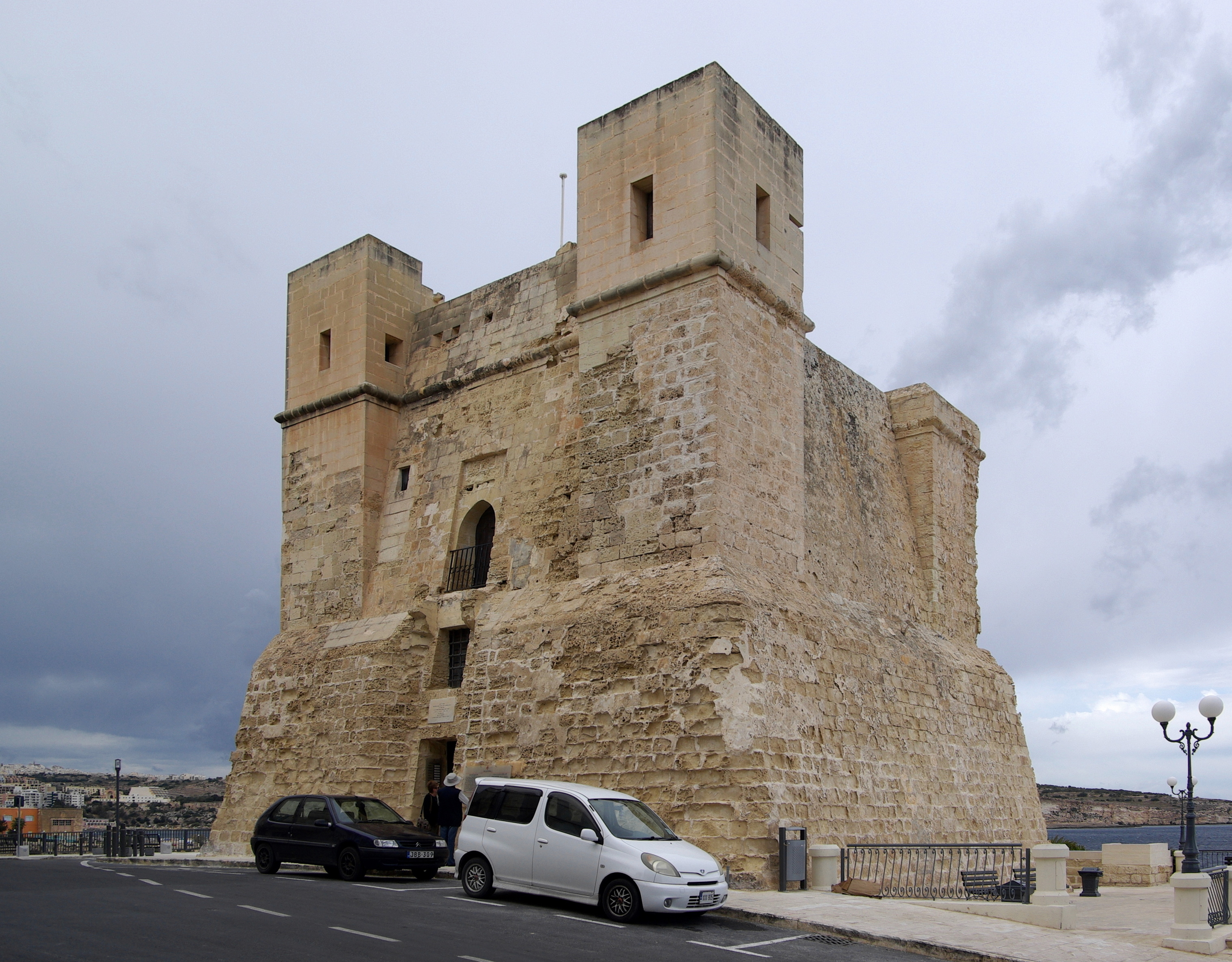 Malta, Wignacourt tower